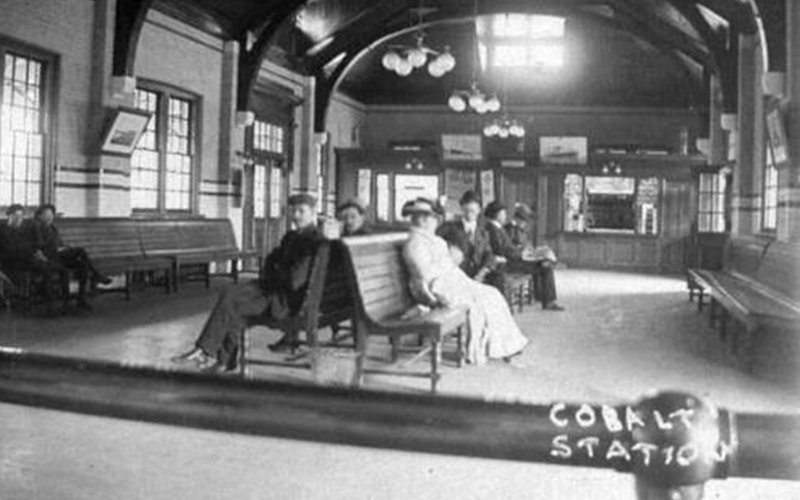 View inside the Cobalt railway station, early 20th Century.